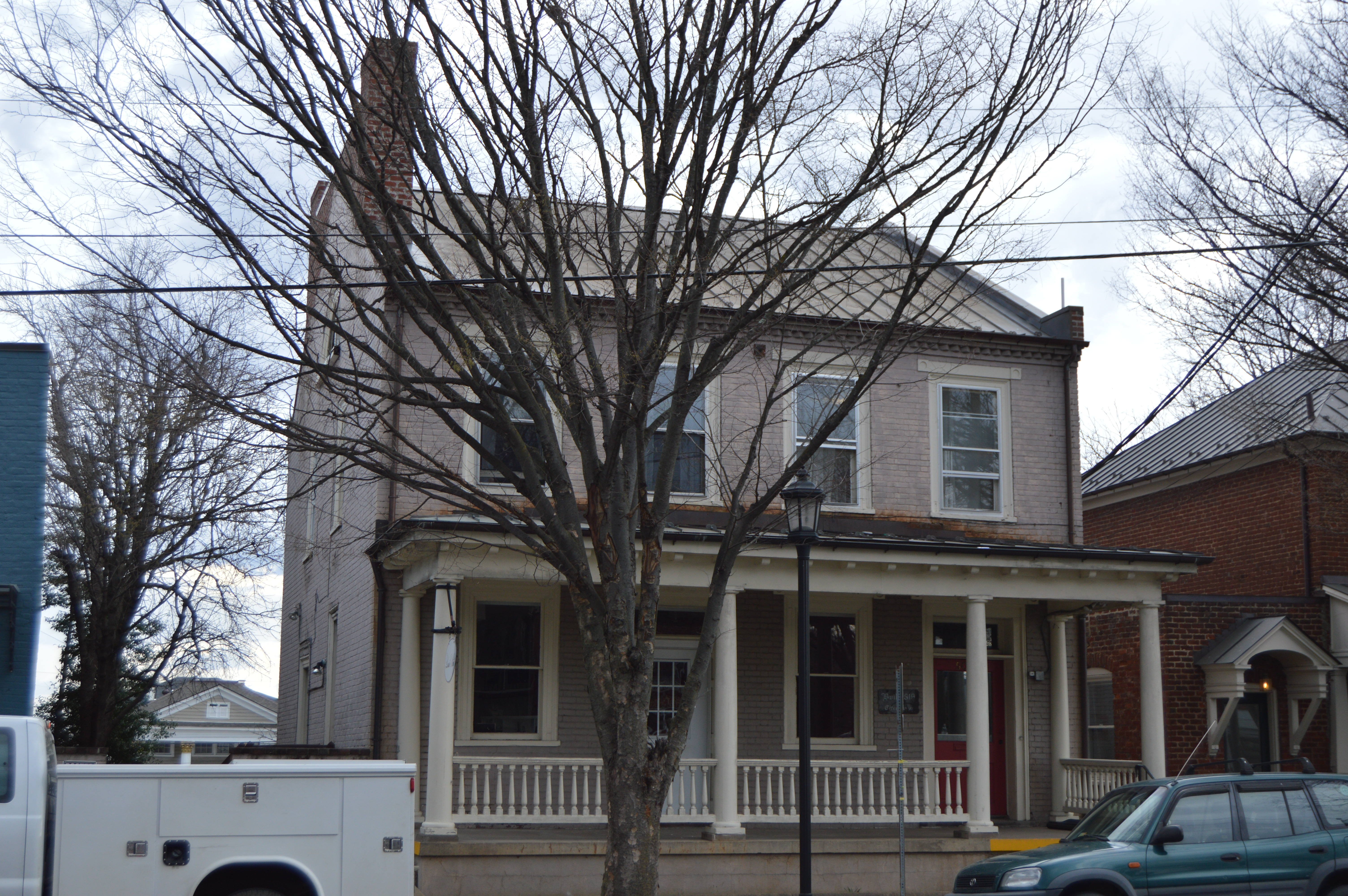 Front and western side of the Paxton Place, located at 503 W. Main Street in Charlottesville, Virginia, United States. Built in 1824, it is listed on the National Register of Historic Places.